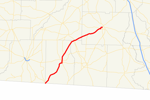 Map of Georgia State Route 111